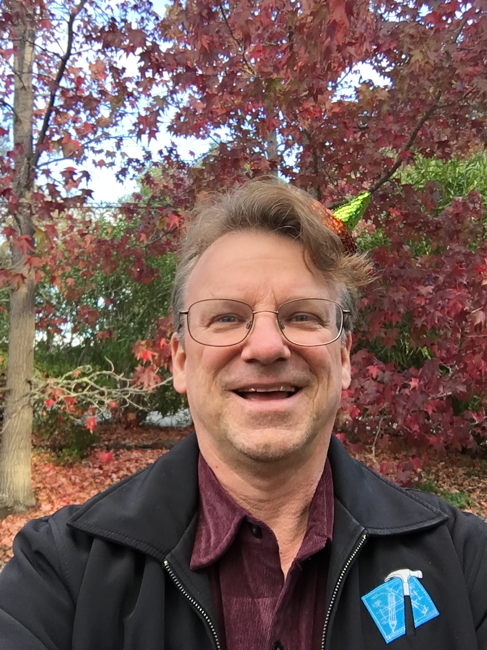 Profile picture of Chris Espinosa